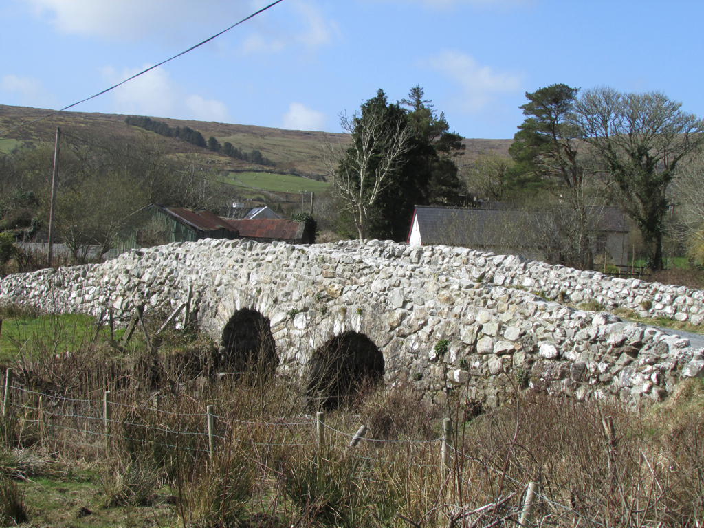 The Quiet Man Bridge